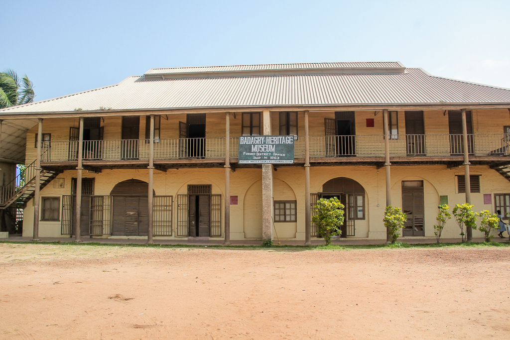 This was the first administrative building in Nigeria during colonial era.